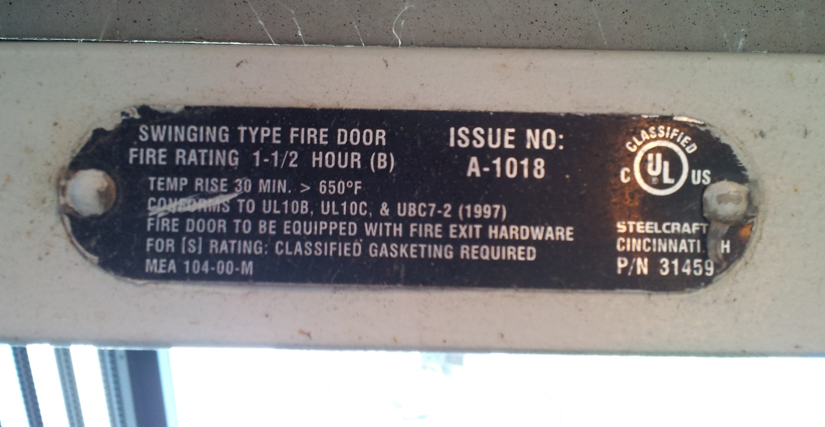 Fire door rating label on a door at the New Carrollton Metro station parking garage.